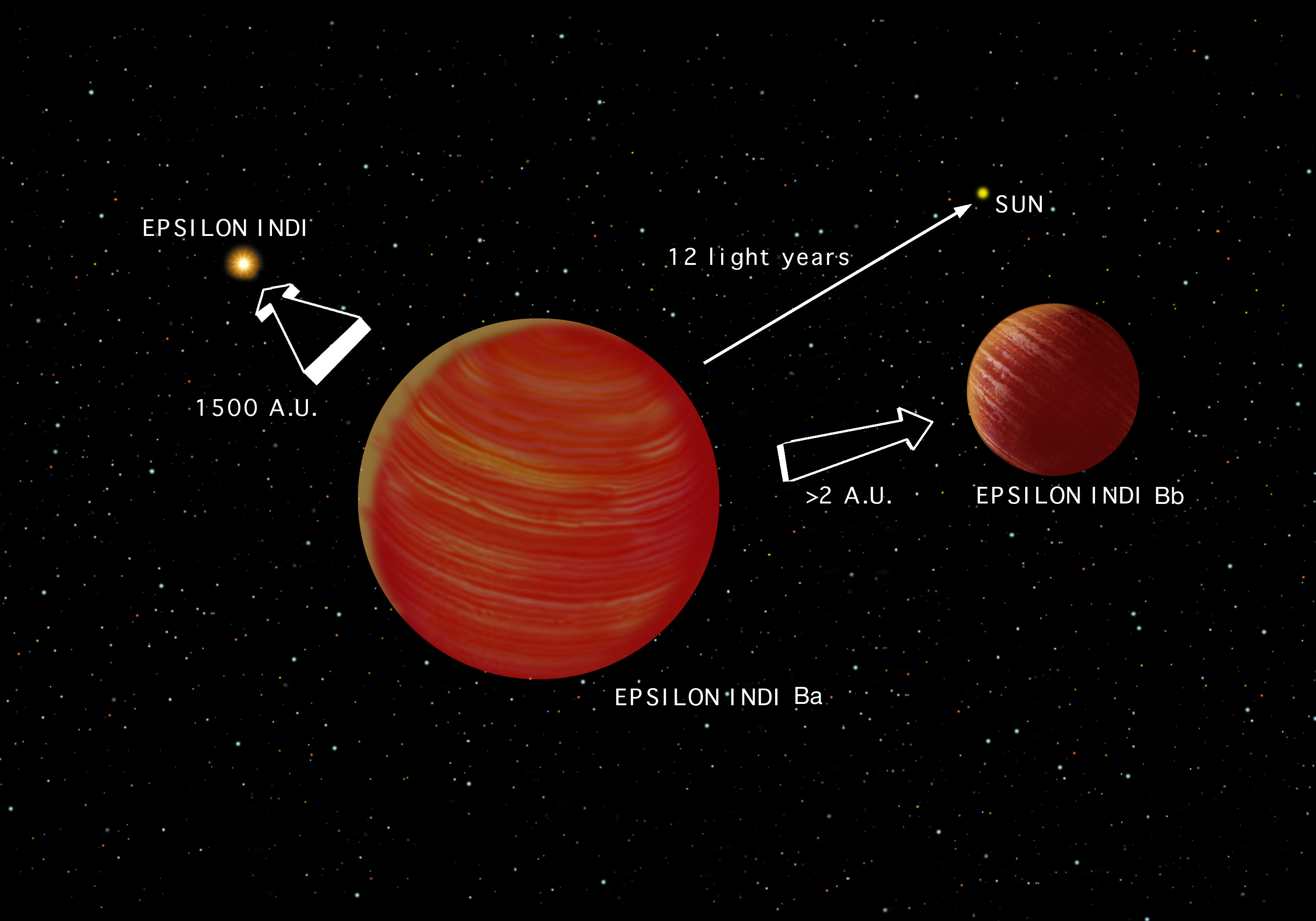 Artist's conception of the Epsilon Indi system showing Epsilon Indi and the brown-dwarf binary companions. Due to the perspective of the brown dwarf companions, the relative sizes are not represented in this illustration. Brown dwarfs have a radius close to Jupiter. The more massive brown dwarf would be denser and brighter in the Near-IR.